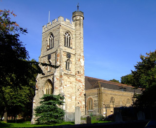 West Ham Church Usually referred to as West Ham Church although the correct name is All Saint's, West Ham.